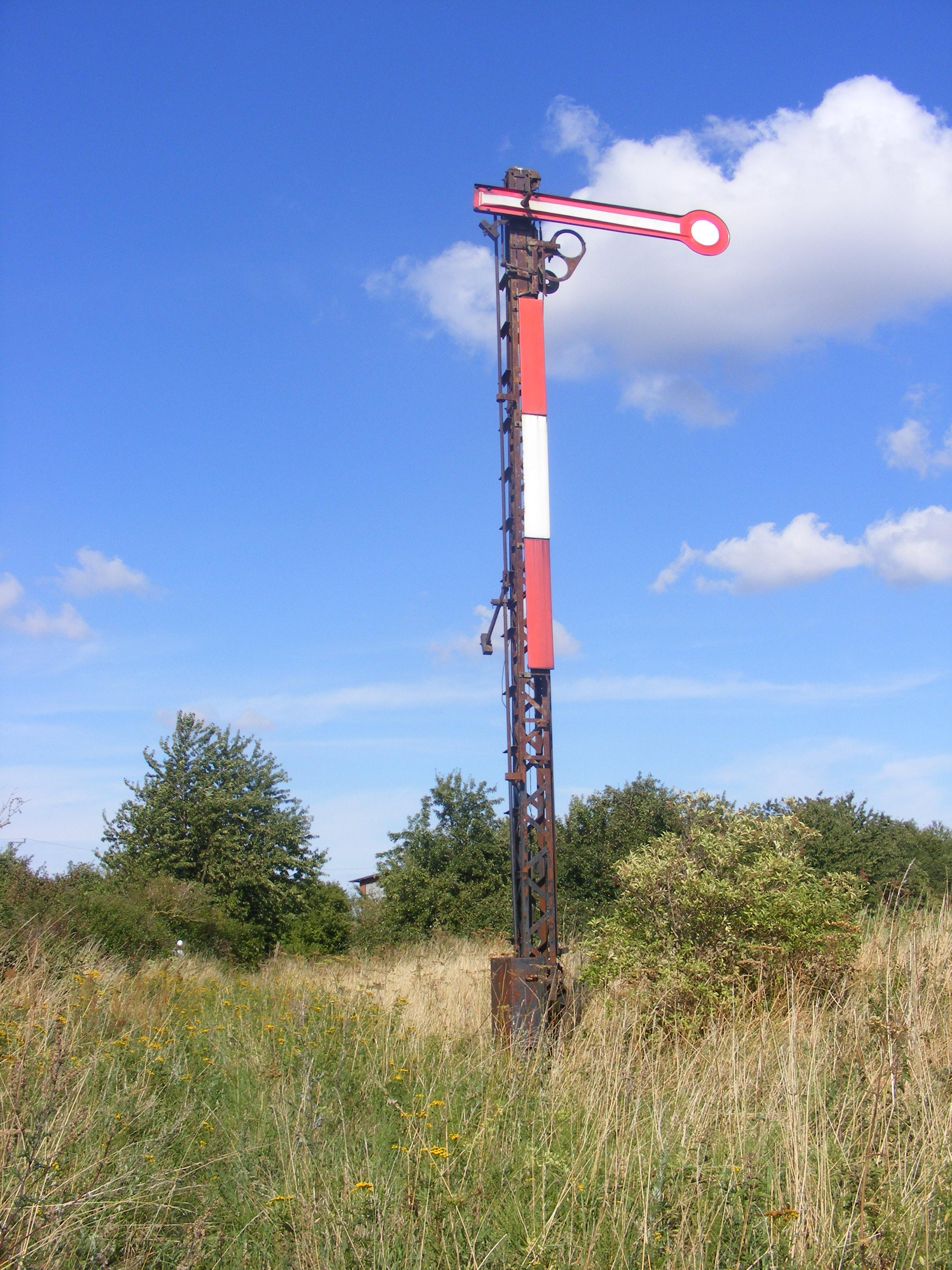 Signal on the former Franzburger Suedbahn close to Velgast railway station (Meckl-West. Pommerania, Germany)